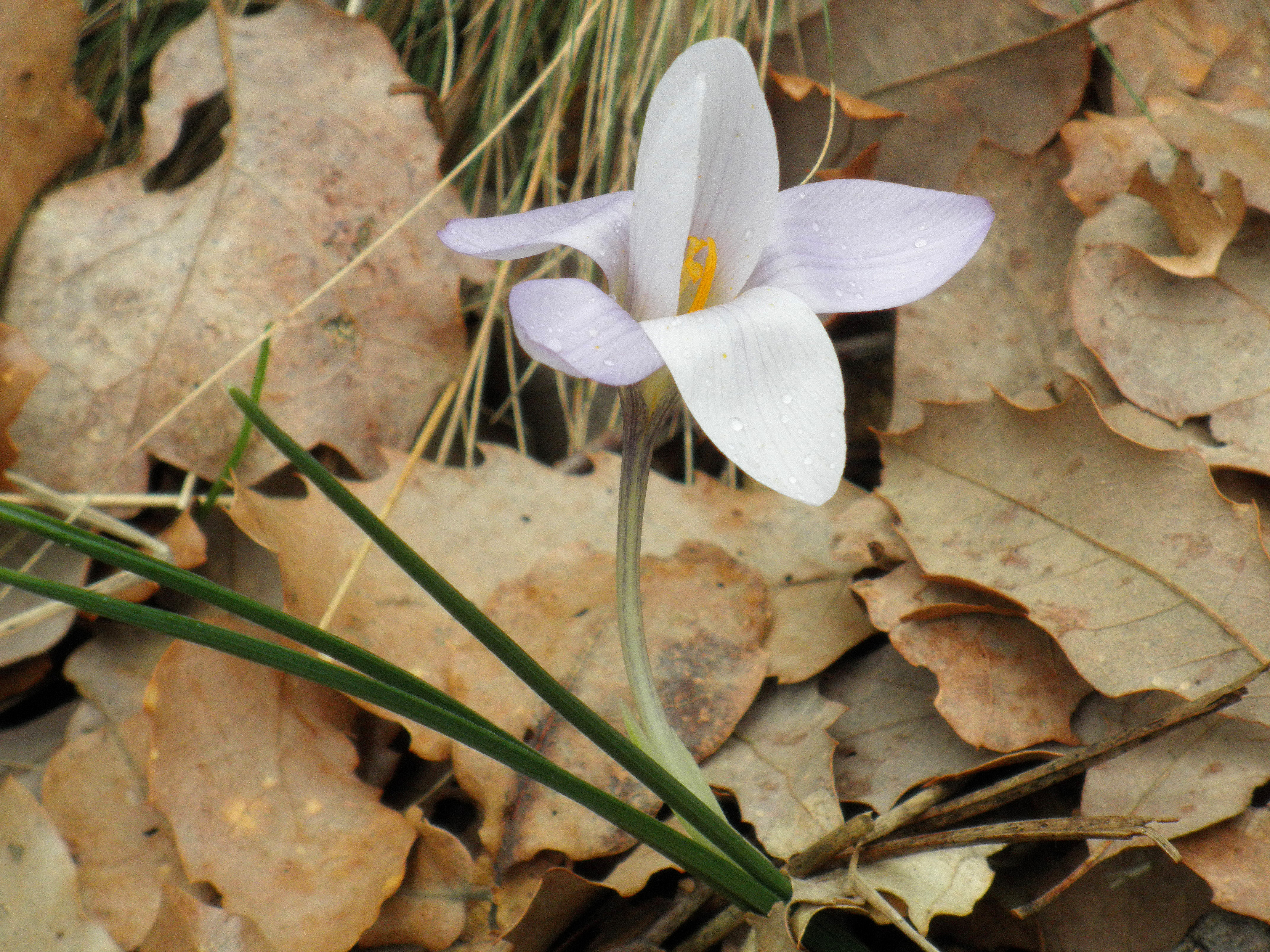 Crocus carpetanus close up, Sierra Madrona, Spain